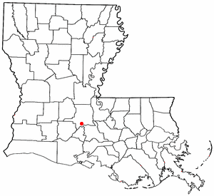 No description nor info from creator nor uploader. Looks to be a map of Louisiana showing location of town of Grand Coteau.